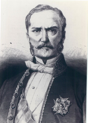 Pedro Egaña